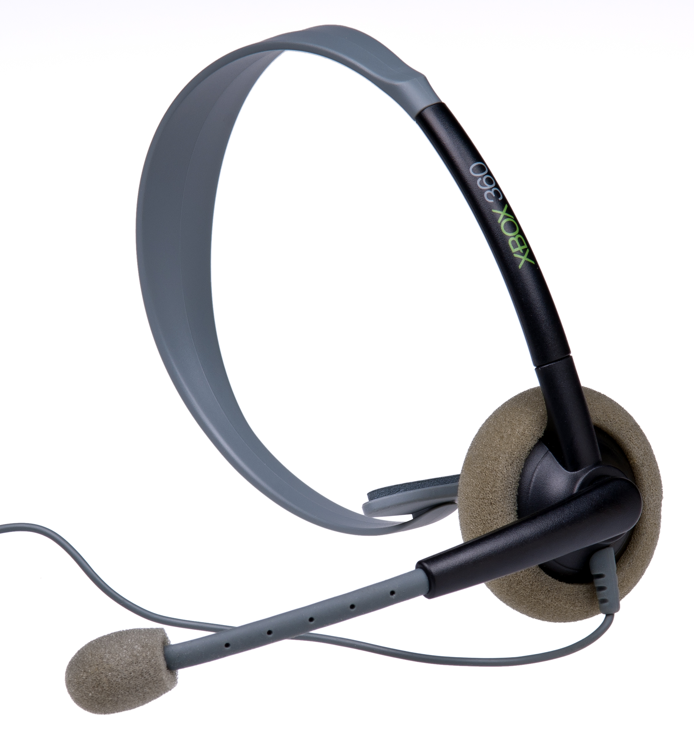 A black, Xbox 360 wired headset. A second generation model that came along with black Xbox 360s.